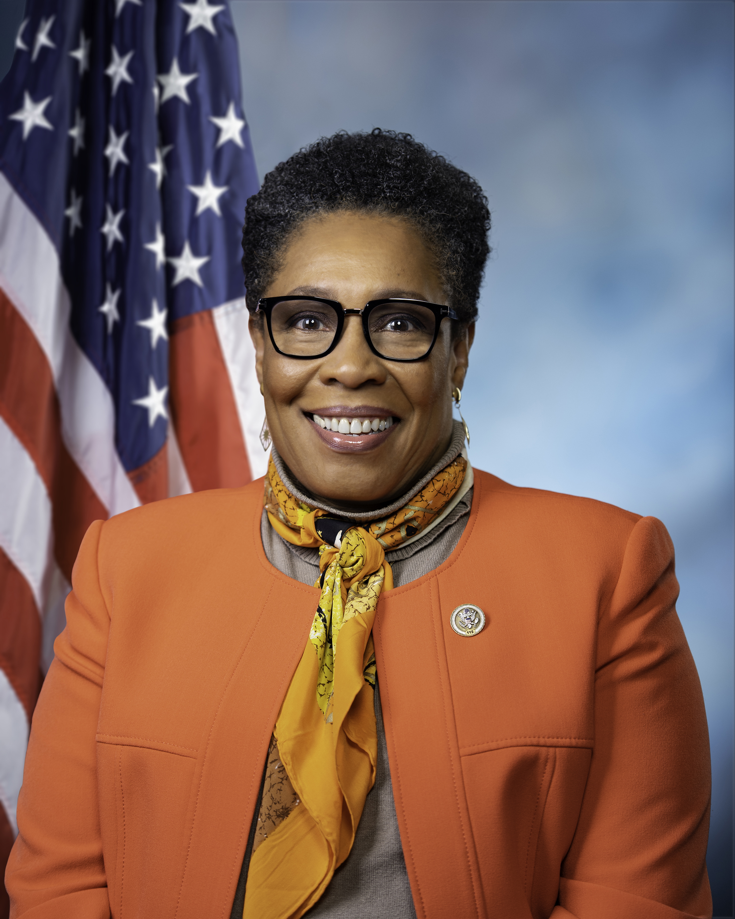 Marcia Fudge 116th Congress official photo